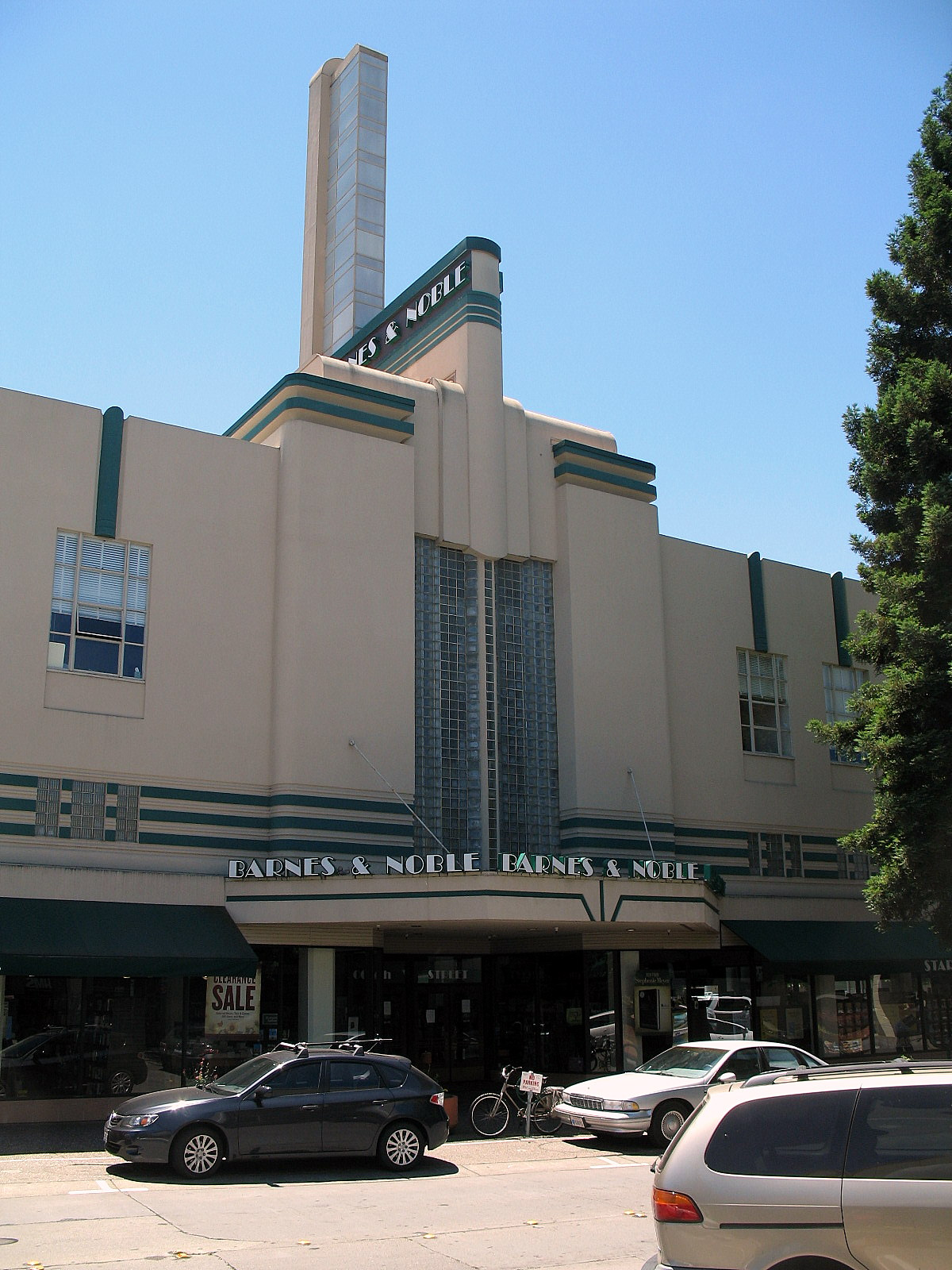 National Register of Historic Places listings in Sonoma County, California. Rosenburg's Department Store, 700 Fourth St., Santa Rosa, California.